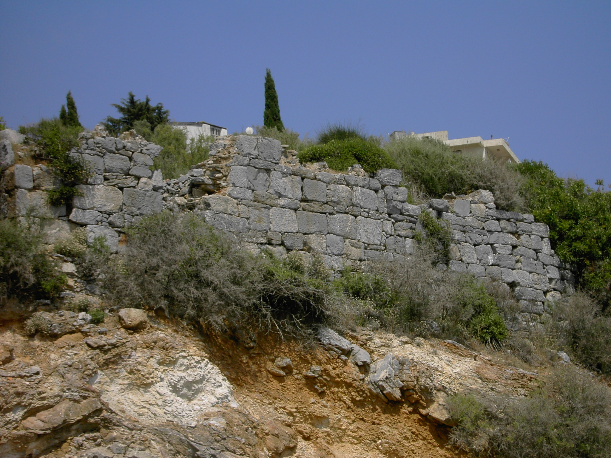 Iotape upper town and today's problem, the construction of summer houses